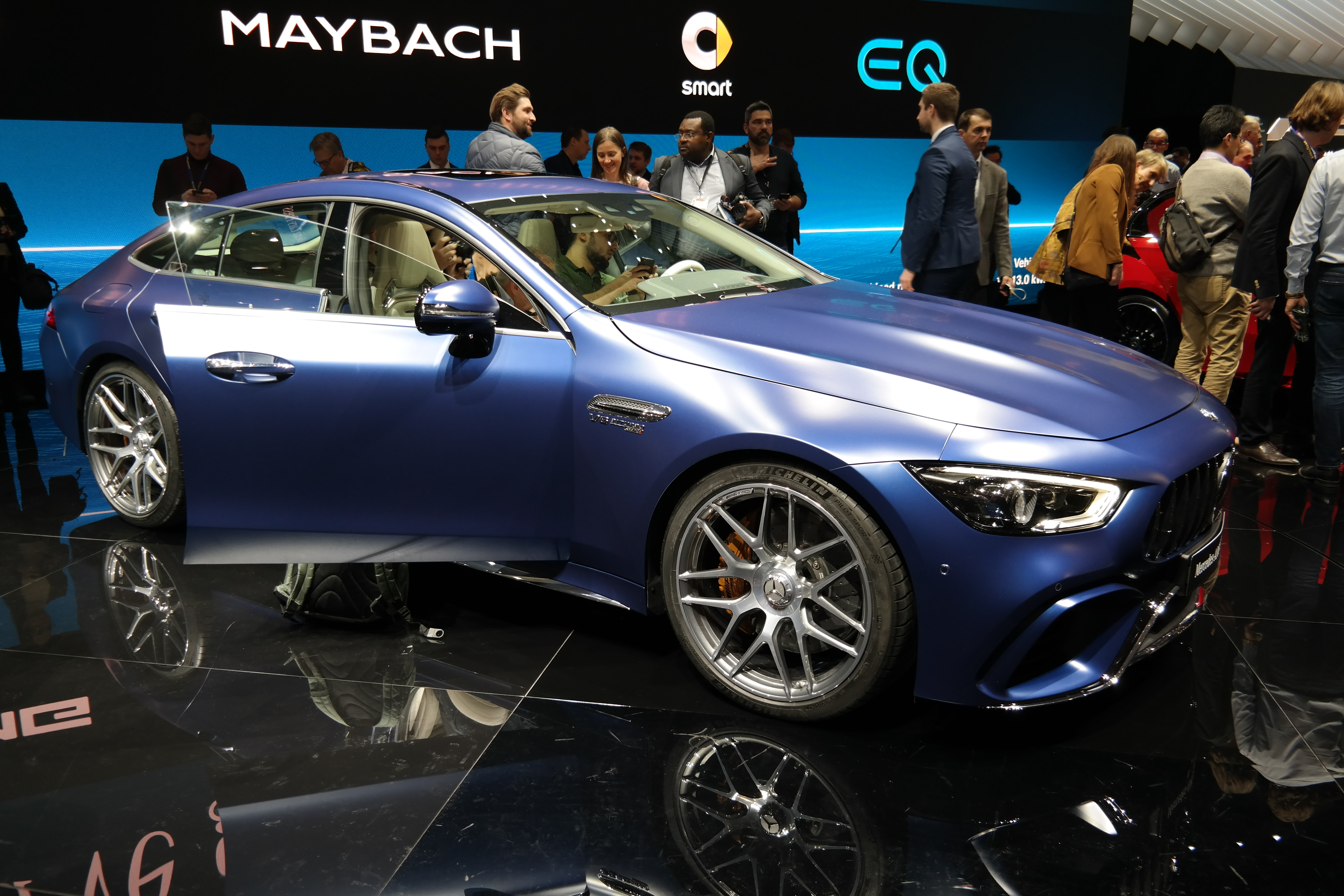 Geneva Motor Show 2018 (photo taken on the first press day)